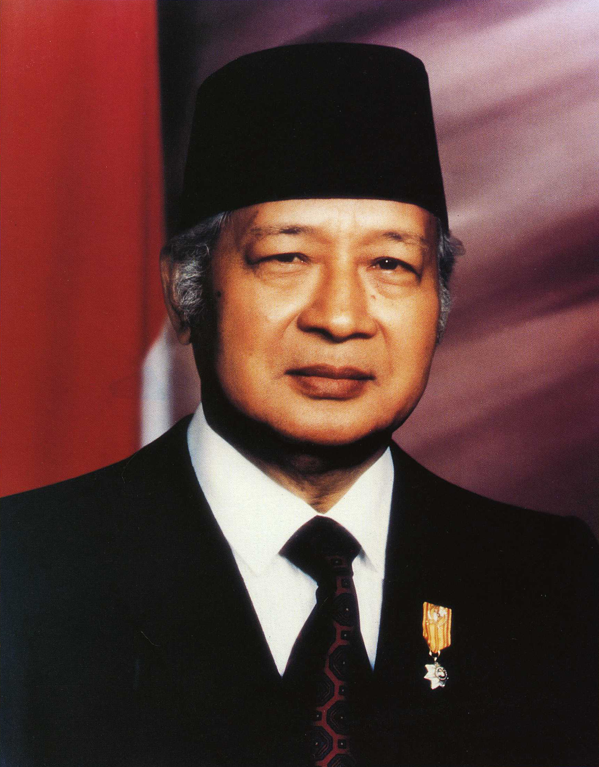 Suharto, second President of the Republic of Indonesia, at the start of his sixth term